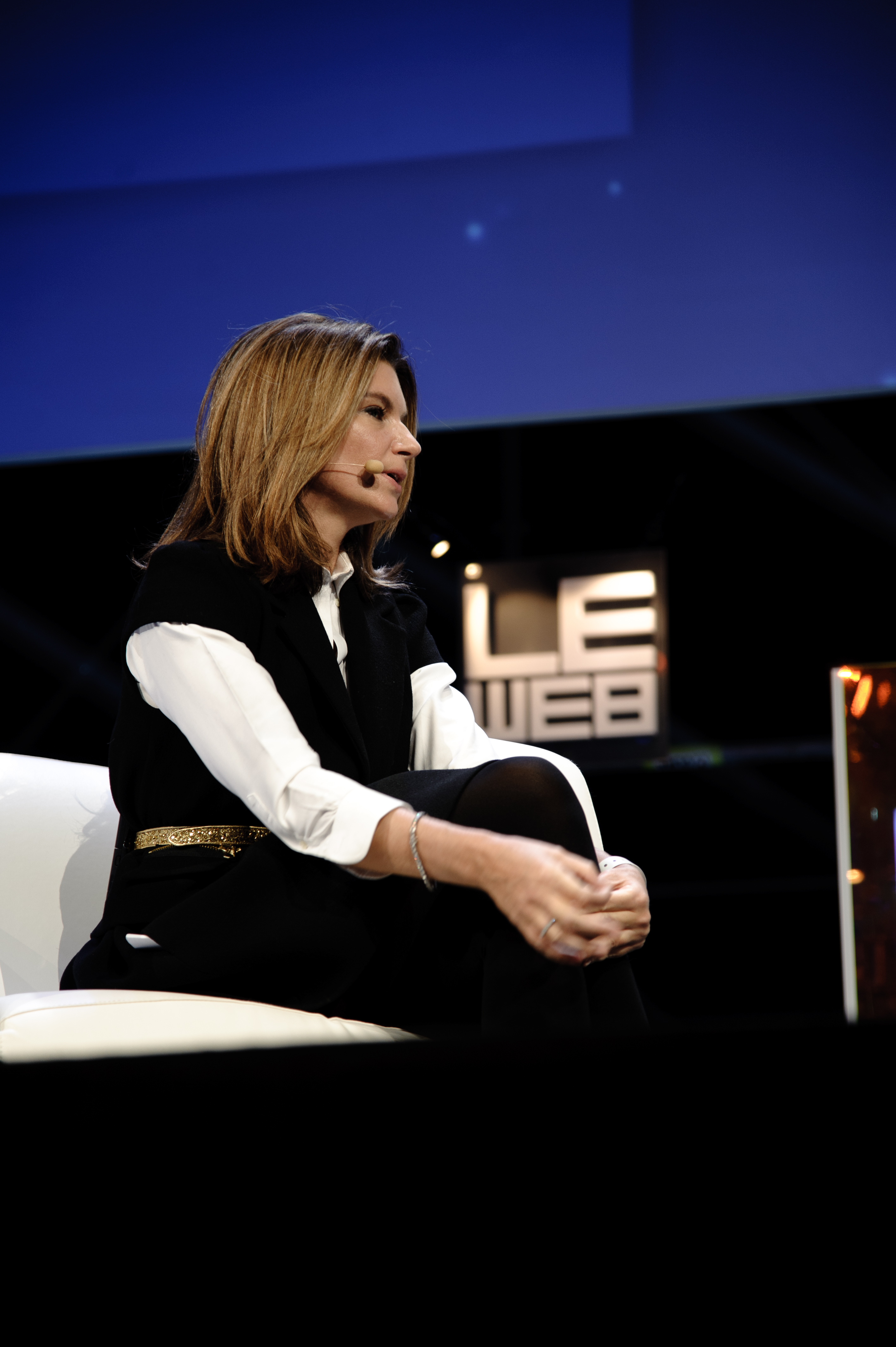 Net-a-Porter founder Natalie Massenet at LeWeb 11 @ Les Docks Paris conference in 2011 Natalie Massenet, founder of Net-a-Porter